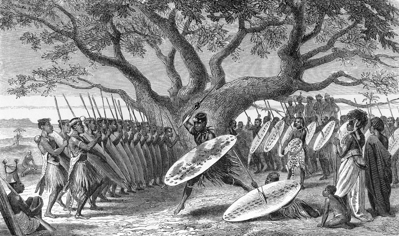 Dance of Landeens, or Zulus, Arrived at Shupanga to Lift the Annual Tribute of the Portuguese "The Landeens or Zulus are lords of the right bank of the Zambesi; and the Portuguese, by paying this fighting tribe a pretty heavy annual tribute, practically admit this. Regularly every year come the Zulus in force to Senna and Shupanga for their accustomed tribute. The few wealthy merchants of Senna groan under the burden, for it falls chiefly on them. They submit to pay annually 200 pieces of cloth, of sixteen yards each, besides beads and brass wire, knowing that refusal involves war, which might end in the loss of all they possess." [p. 30]